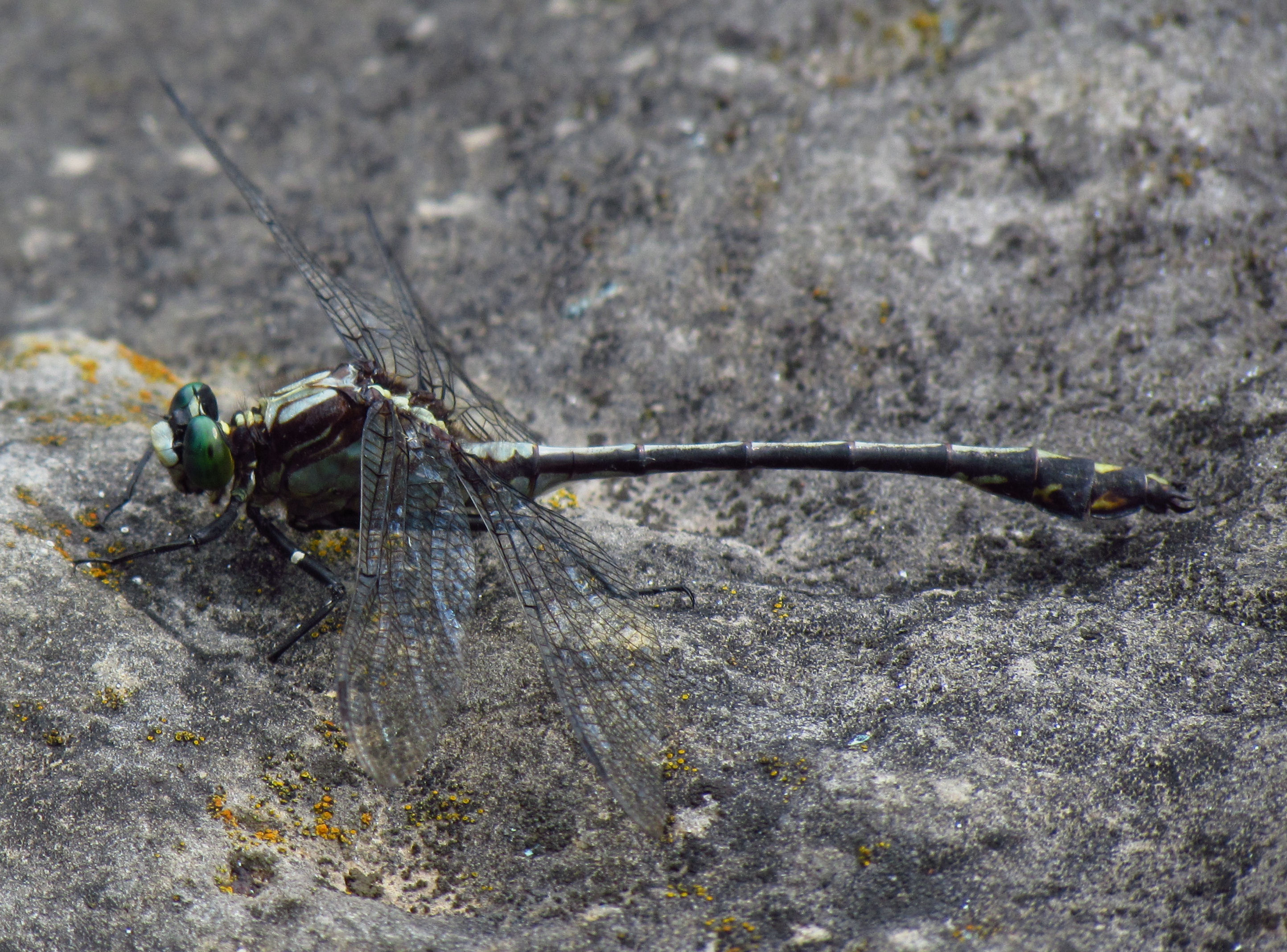 Black-shouldered Spinyleg (Dromogomphus spinosus), Rideau River, Ontario, Canada